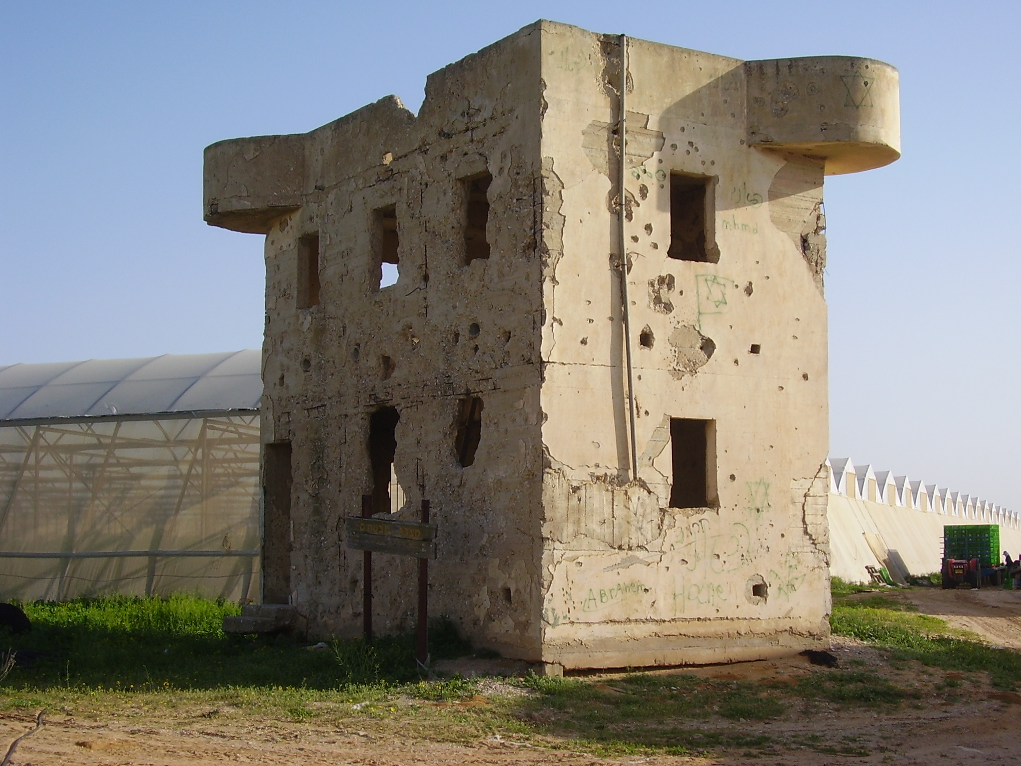 old security house (1948- independence war) in mivtakhim in the negev, israel בית הבטחון הישן של מבטחים , בנגב